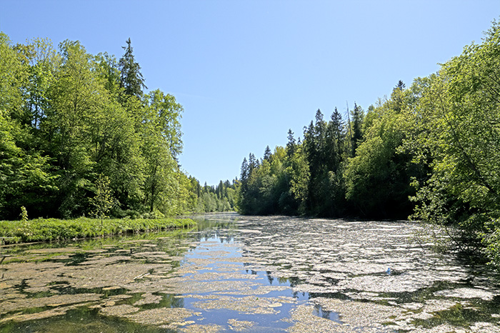 Radon lake near Lopukhinka